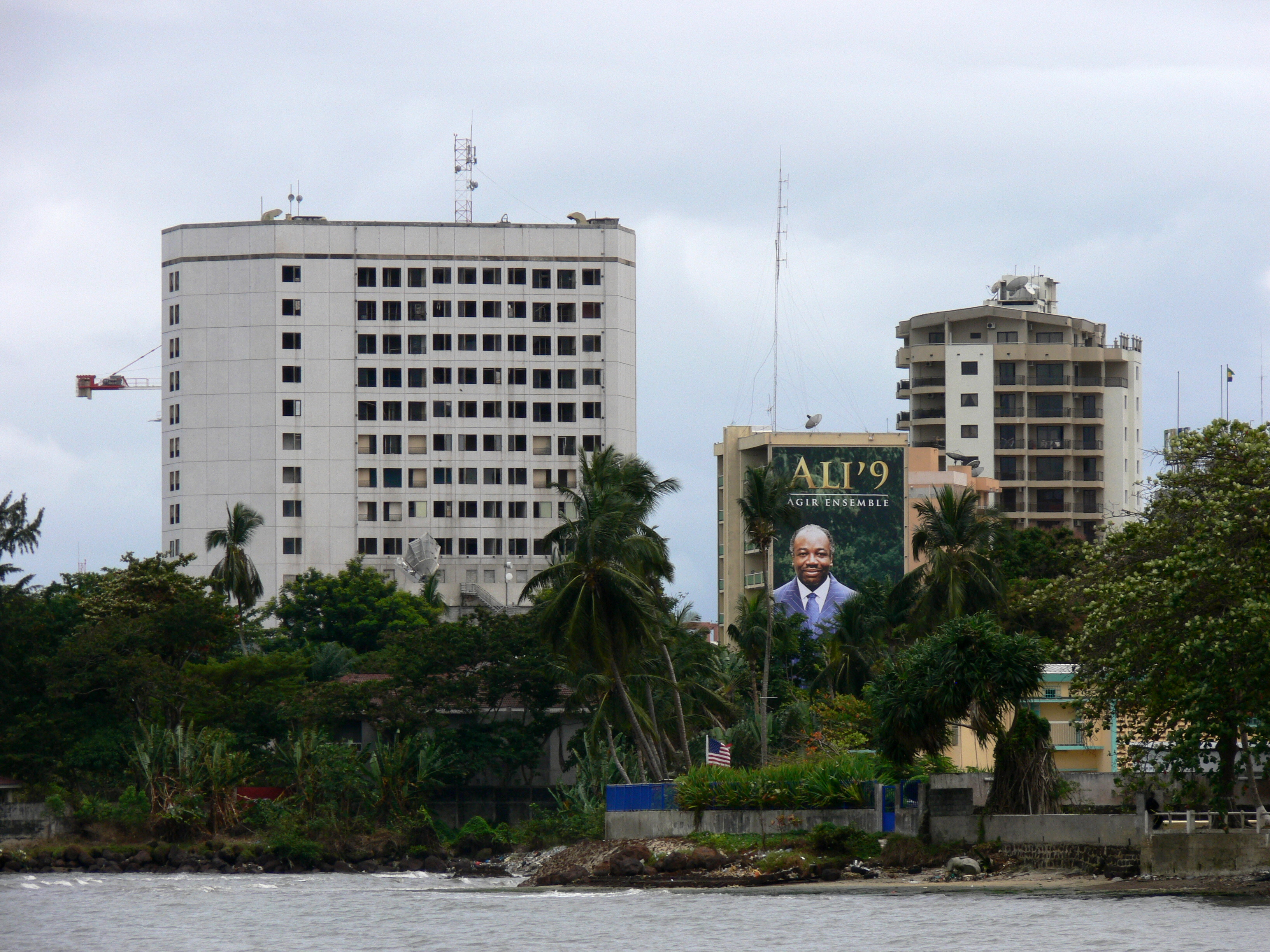 Beachfront area in Libreville, Gabon